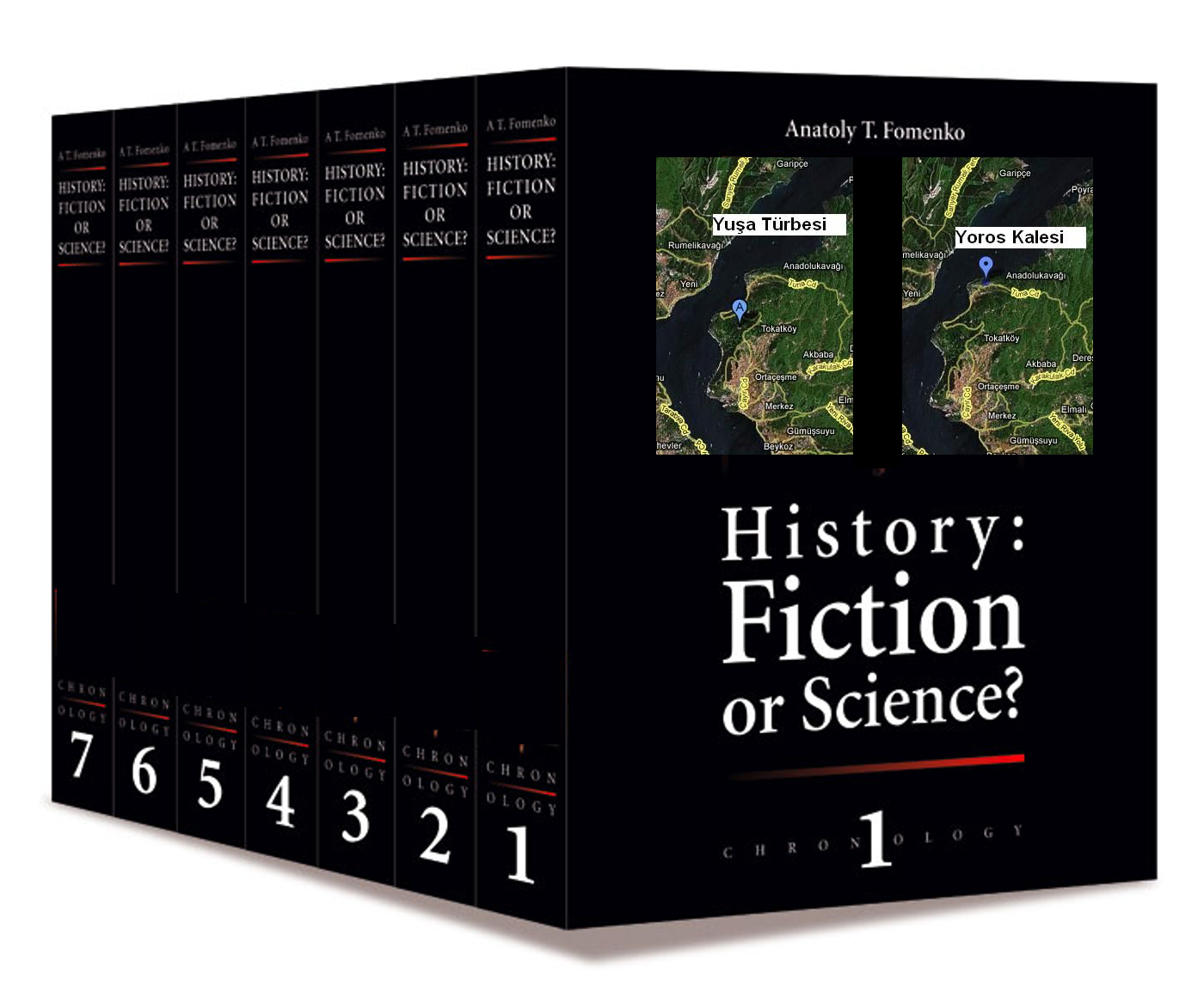 Fake recreation of Fomenko's books about New Chronology(to avoid copyvio)